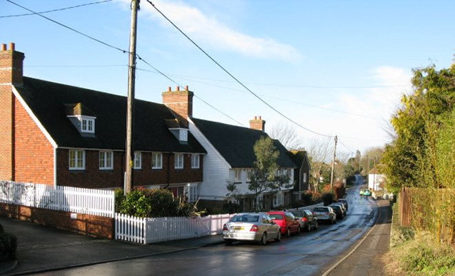 Clap Hill, Aldington